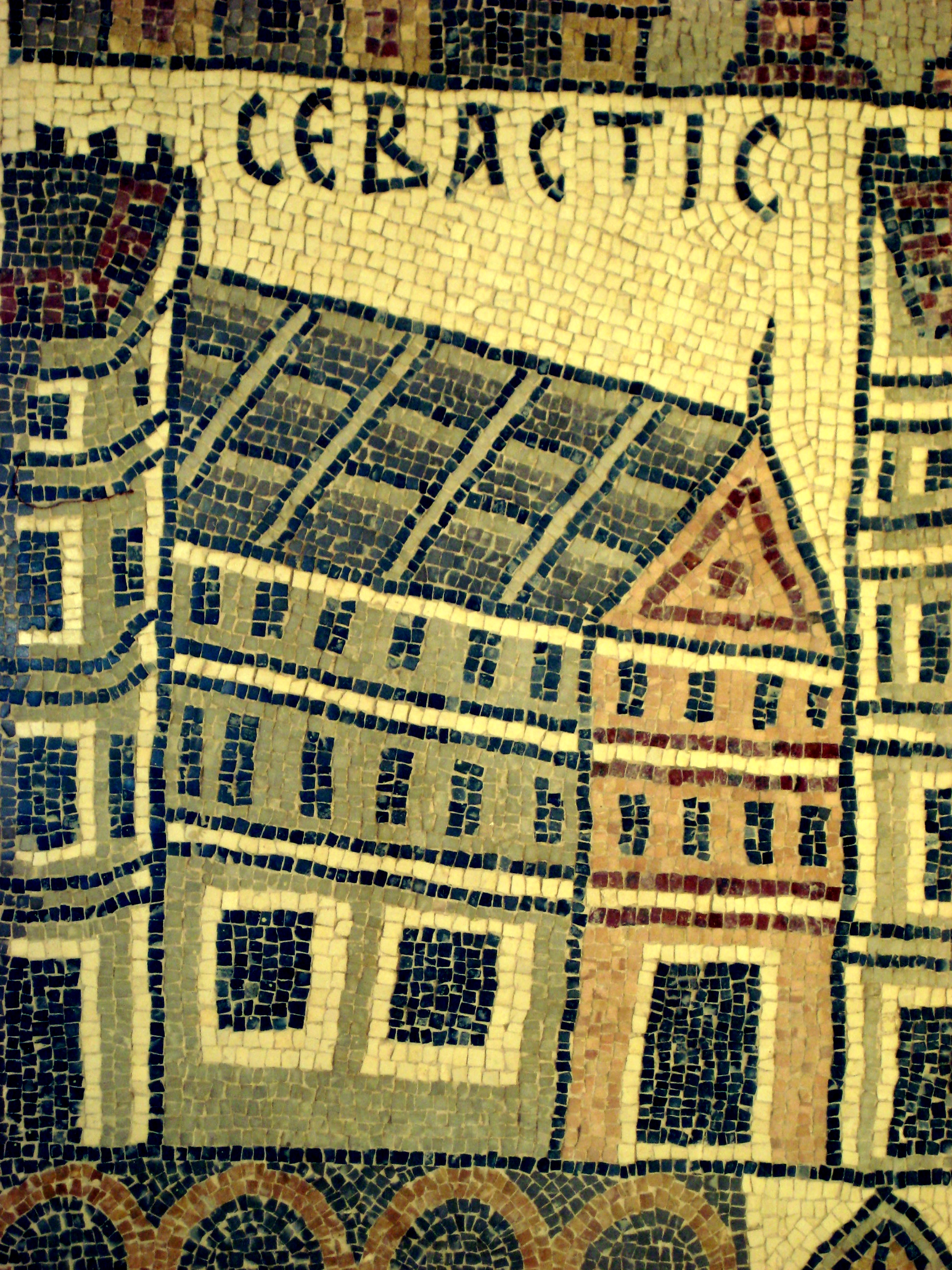 Mosaic depicting the ancient city of Sebastis (now Sebastia, near Nablus, West Bank) in Saint Stephen Church located in Umm Rasas, Jordan.